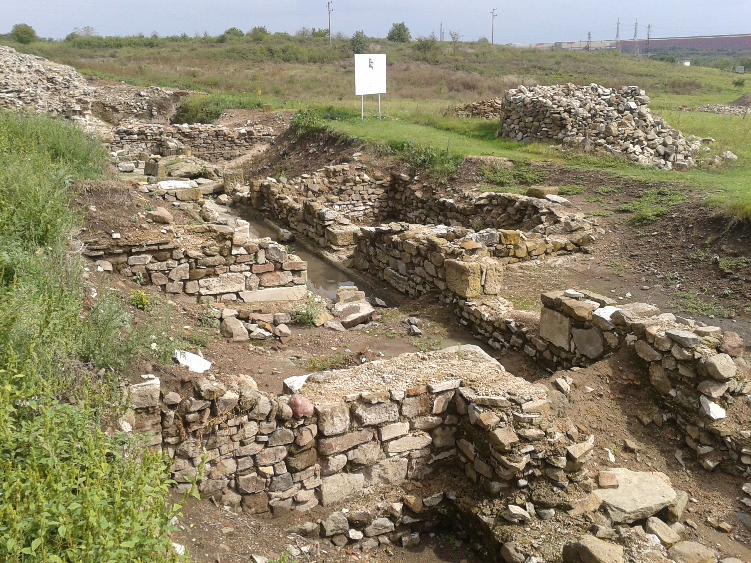 Roman town of Deultum, village of Debelt, Sredets Municipality, Burgas Province, Bulgaria